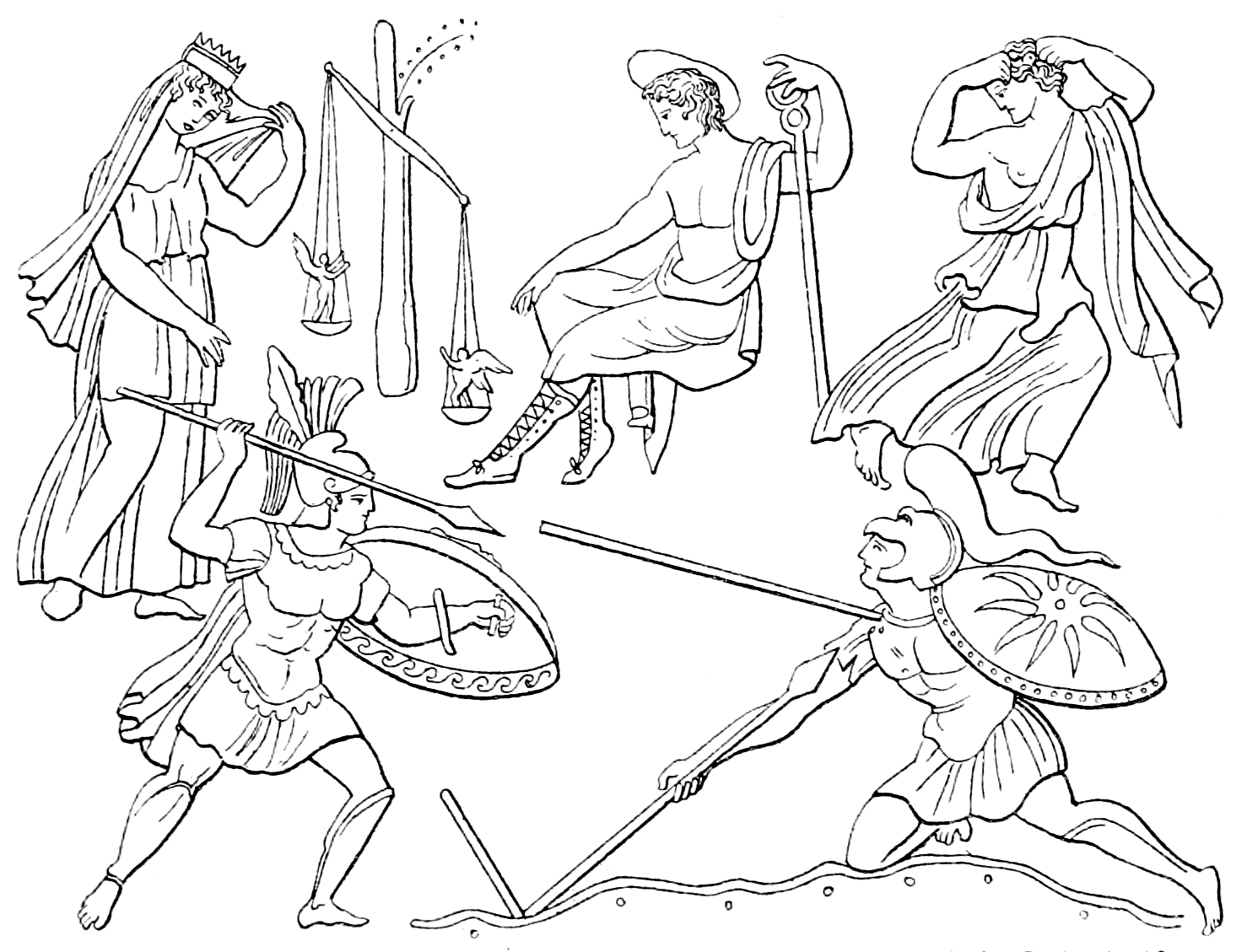 Achilles and Memnon, Kerostasia